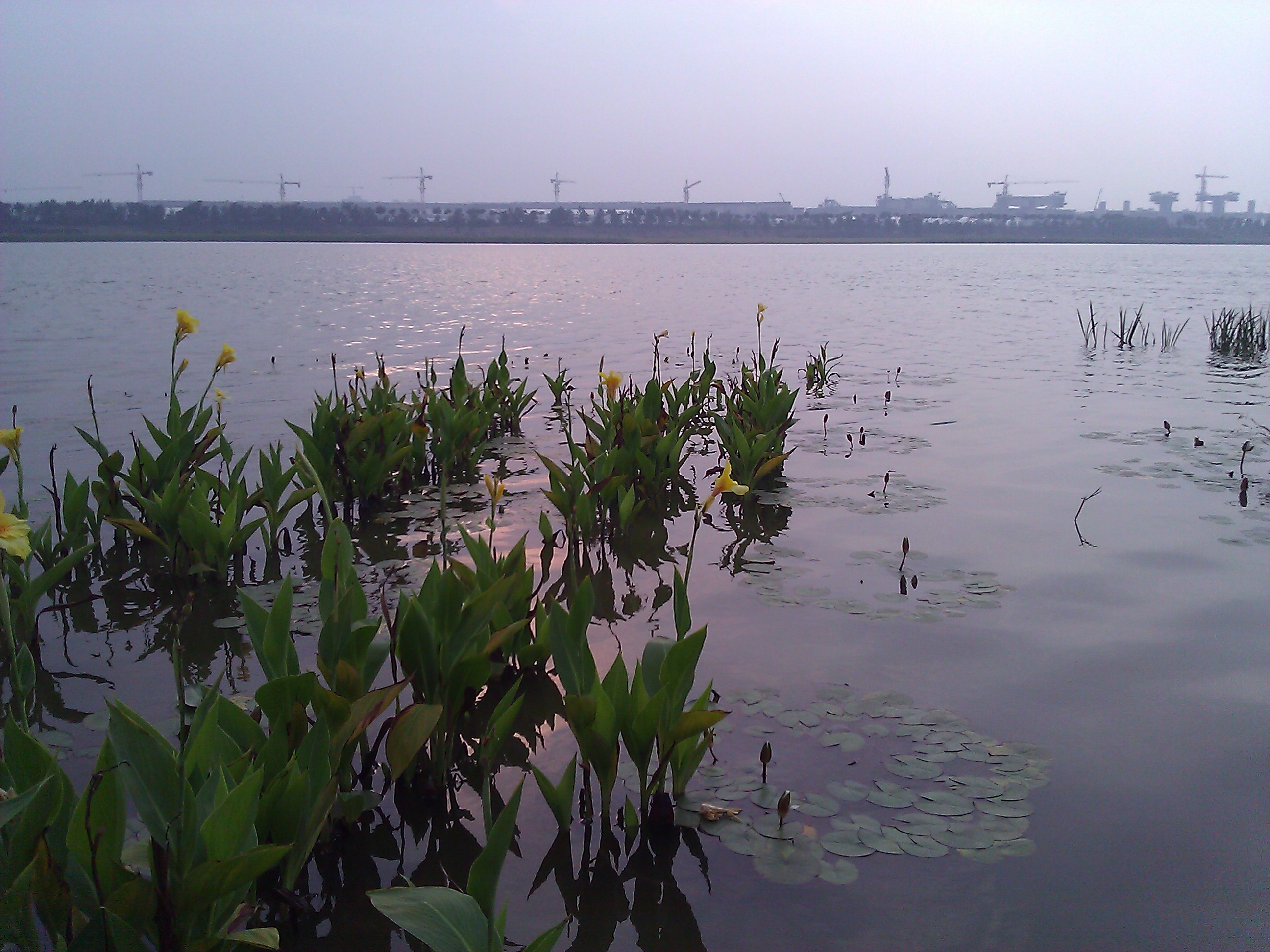 Wanping Lake Northern Section